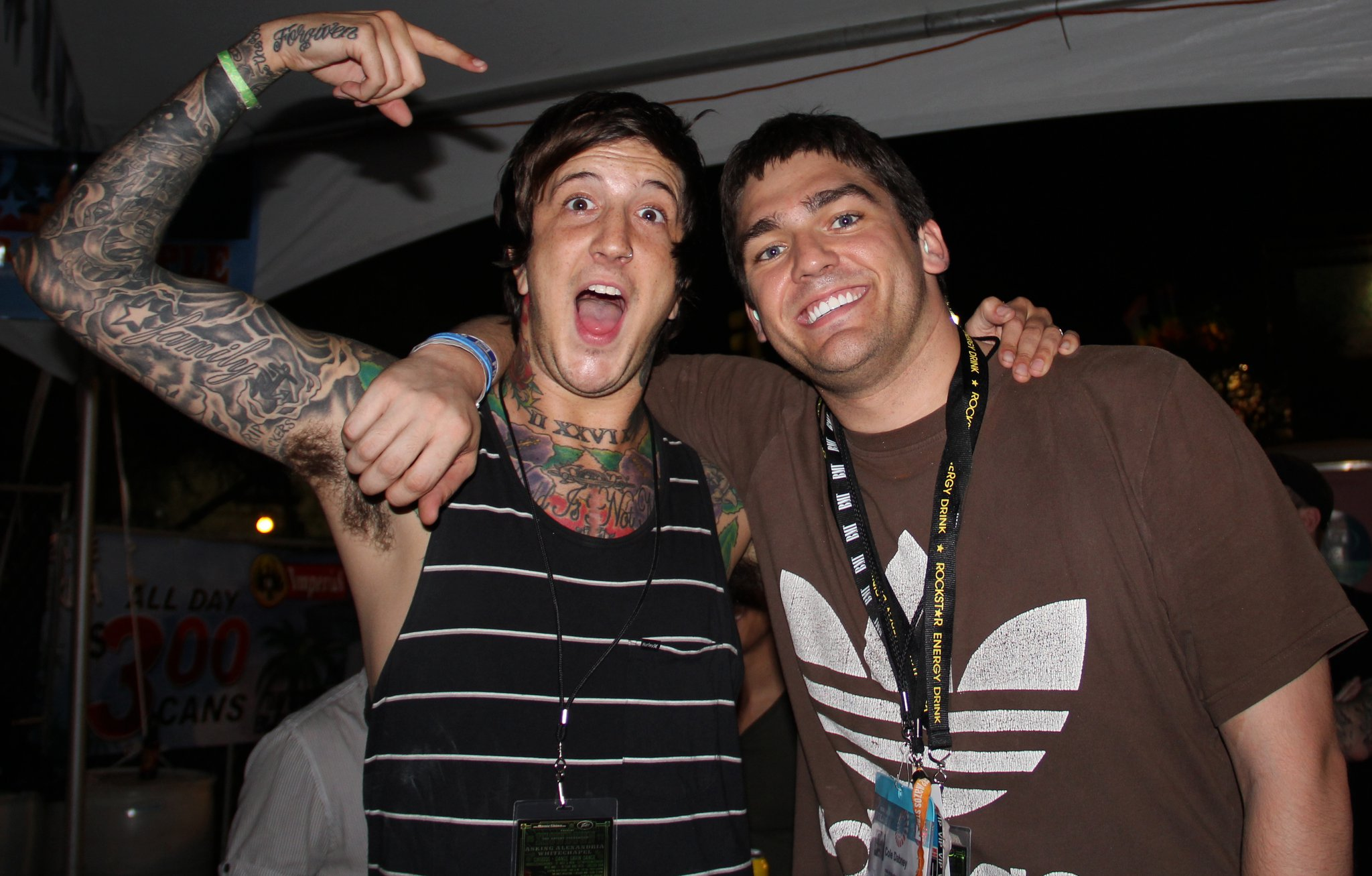 Austin Carlile Of Mice & Men after SXSW Show 2011